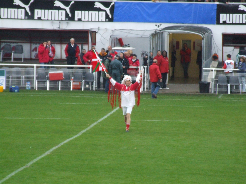 Rabagny (mascotte)